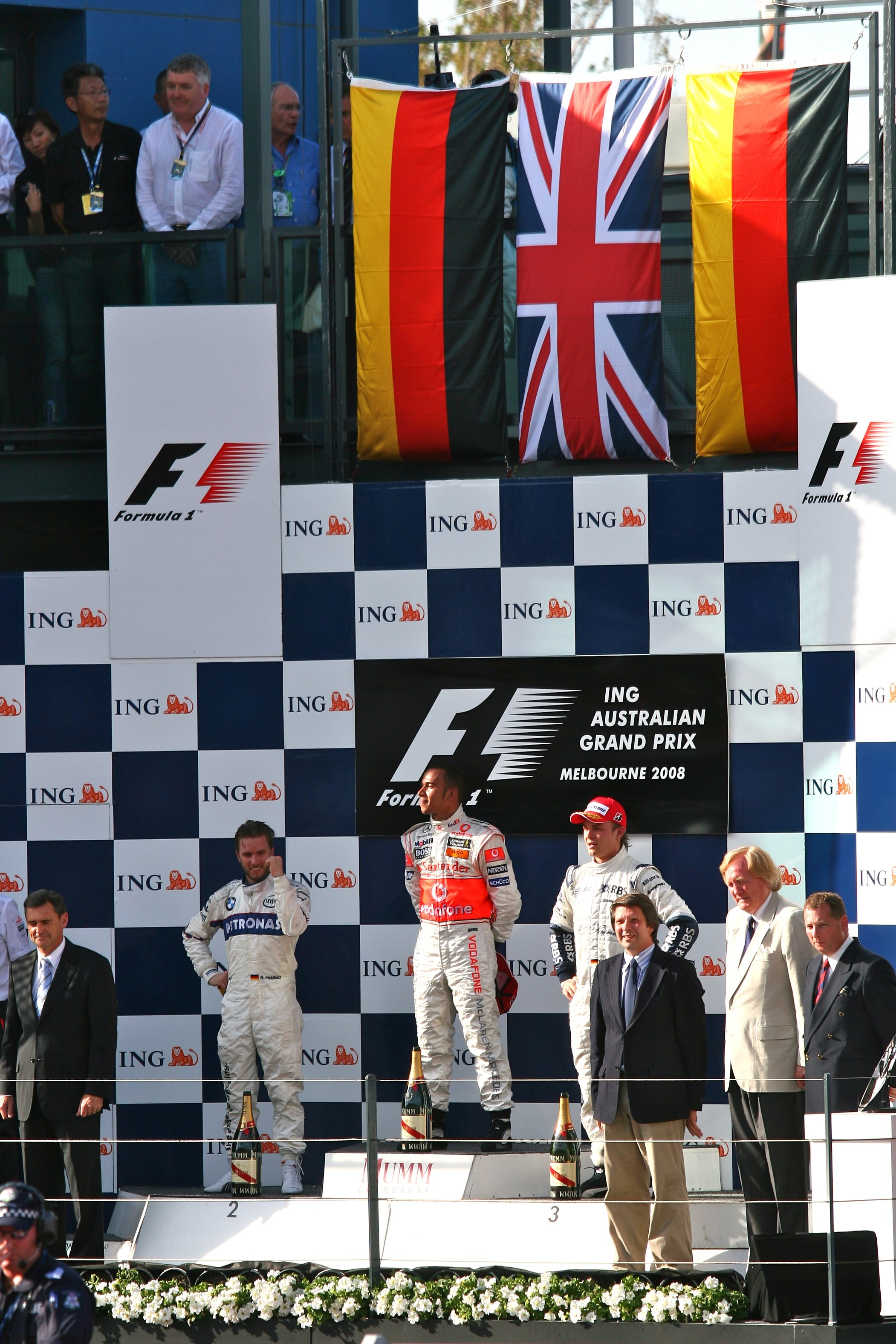 The podium of the 2008 Australian Grand Prix. From left to right: Nick Heidfeld, Lewis Hamilton and Nico Rosberg.